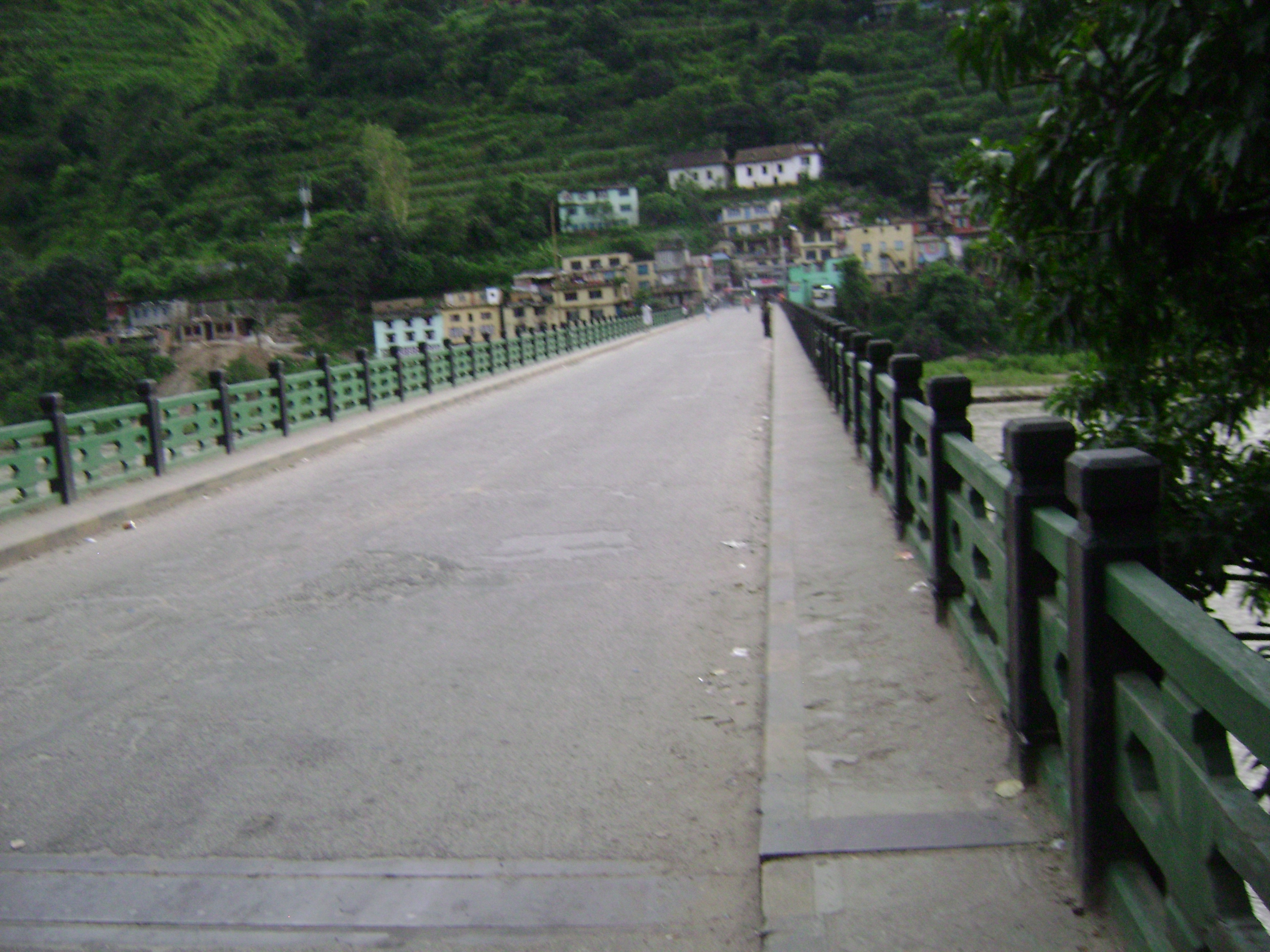 Dolalghat bridge.